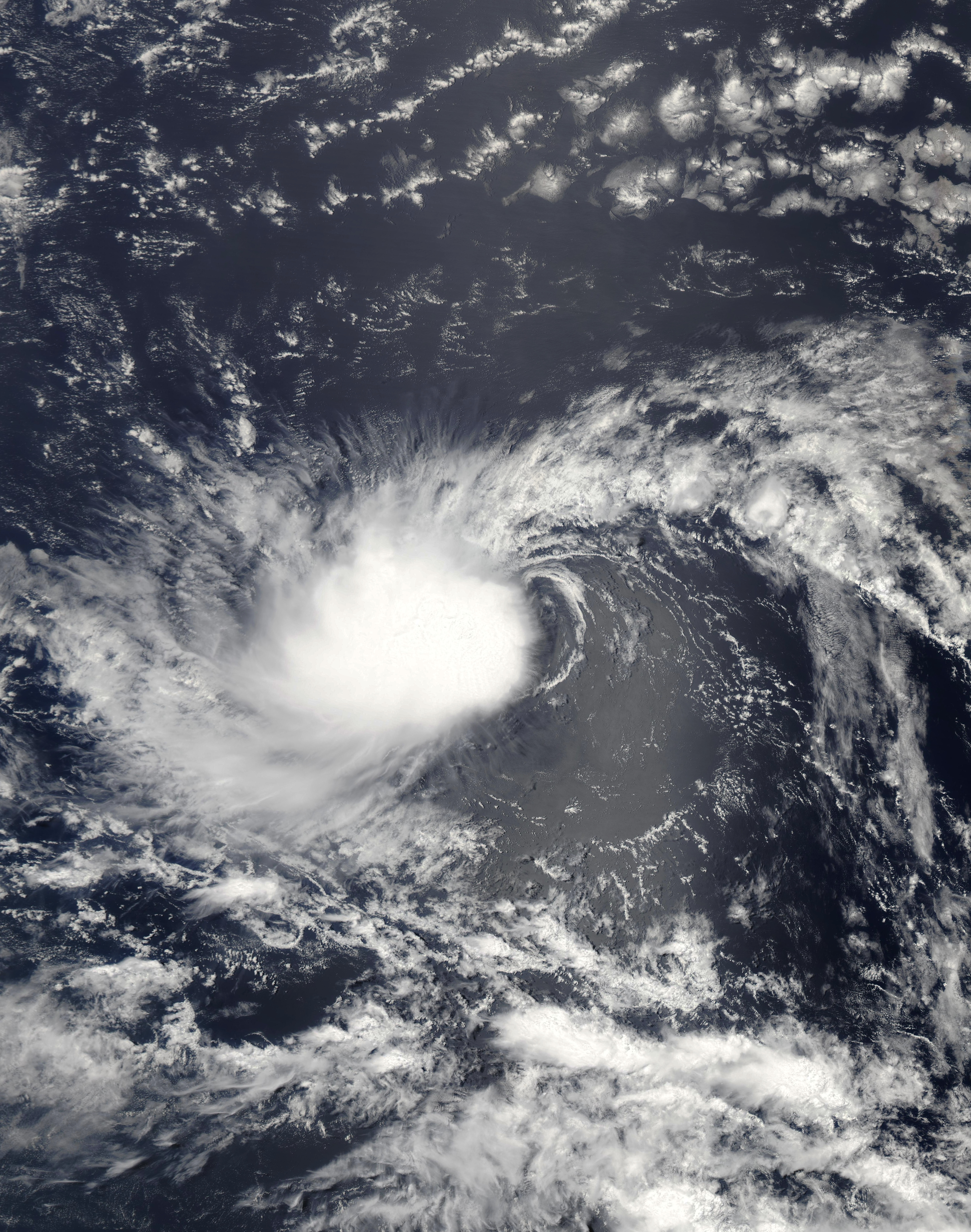 Tropical Storm Ana at 15:40 UTC on August 12, 2009.